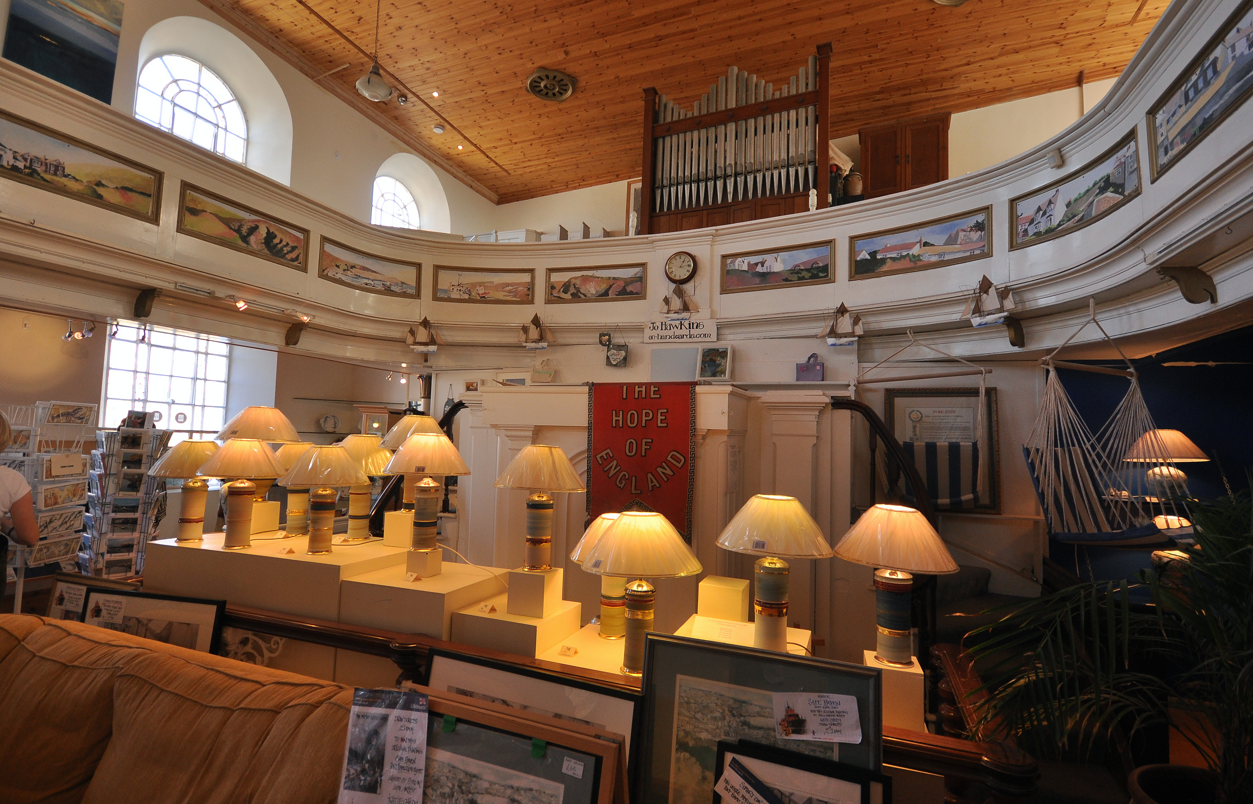 Inside an art gallery (a former Methodist chapel) in Port Isaac, Cornwall.